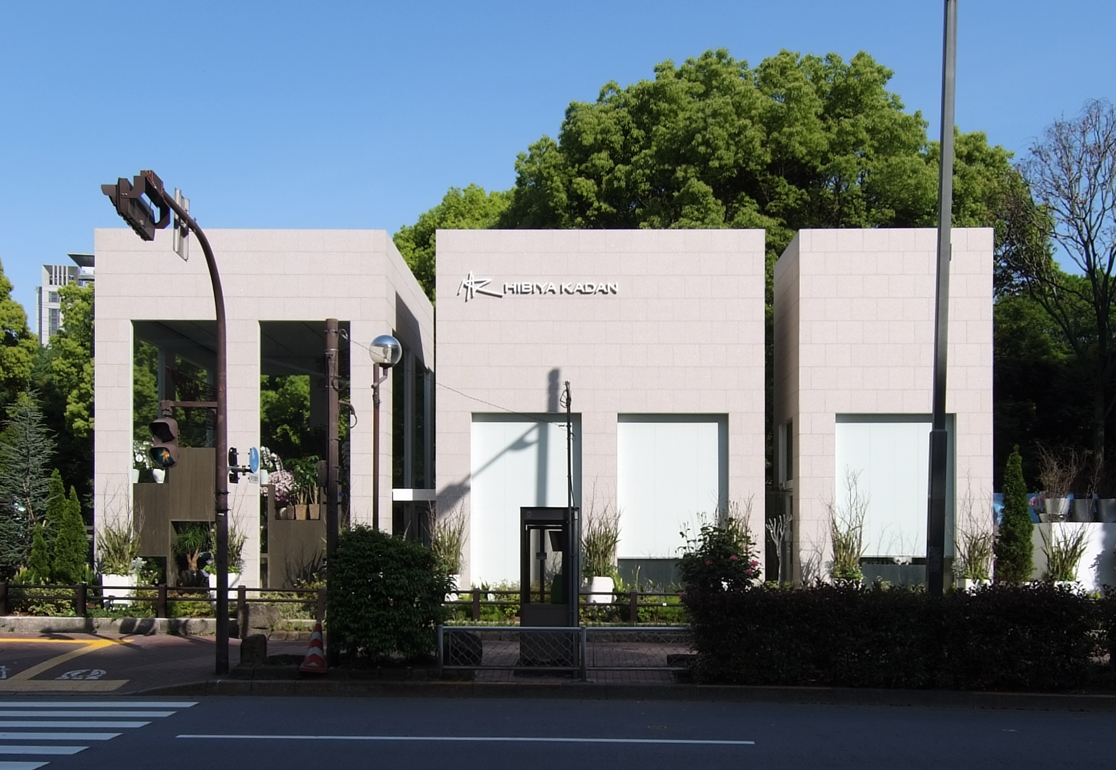 Hibiyakadan, at Chiyoda-ku Tokyo japan, designed by Kumiko Inui in 2009.